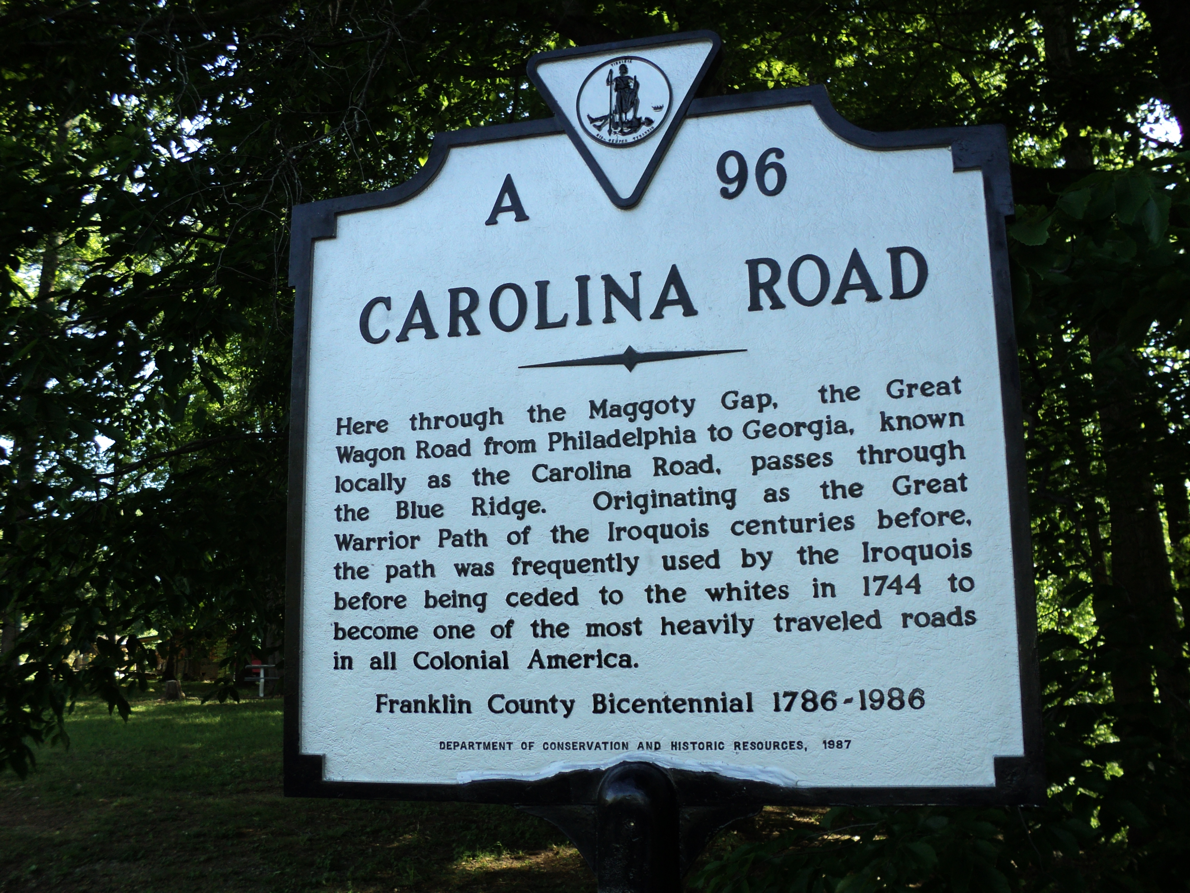 Virginia state historic marker for the route of the Carolina Road, which passed through present-day Franklin County, Virginia.